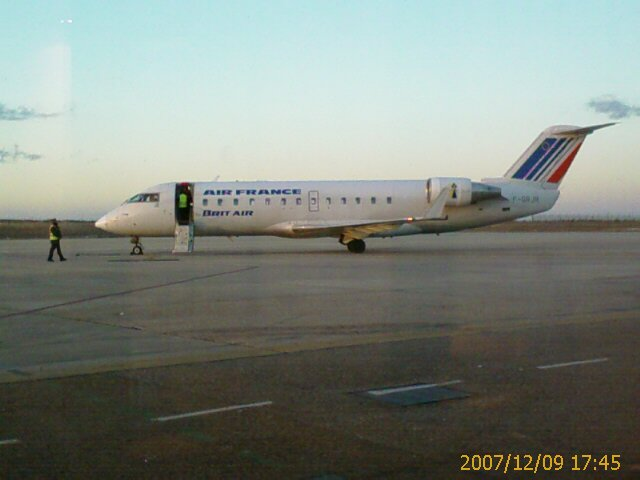 CRJ100 of BritAir, on apron of Valladolid Airport